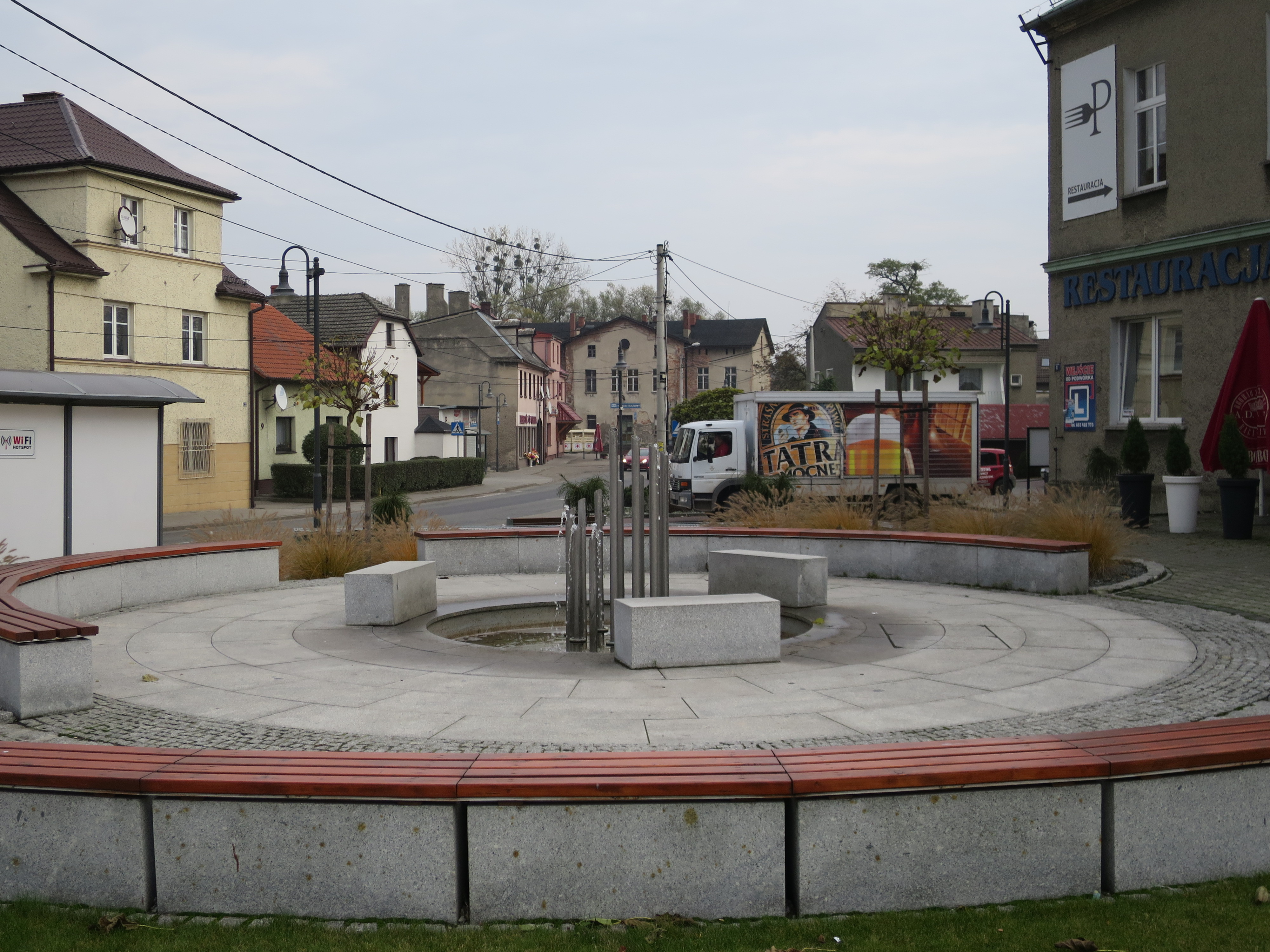 This photo was taken during Wikiexpedition 2016 set up by Wikimedia Polska Association.You can see all photographs in categories Wikiekspedycja Opolska 2016 (Polish part) and Mediagrant III:Wikiexpedice Slezsko (Czech part).